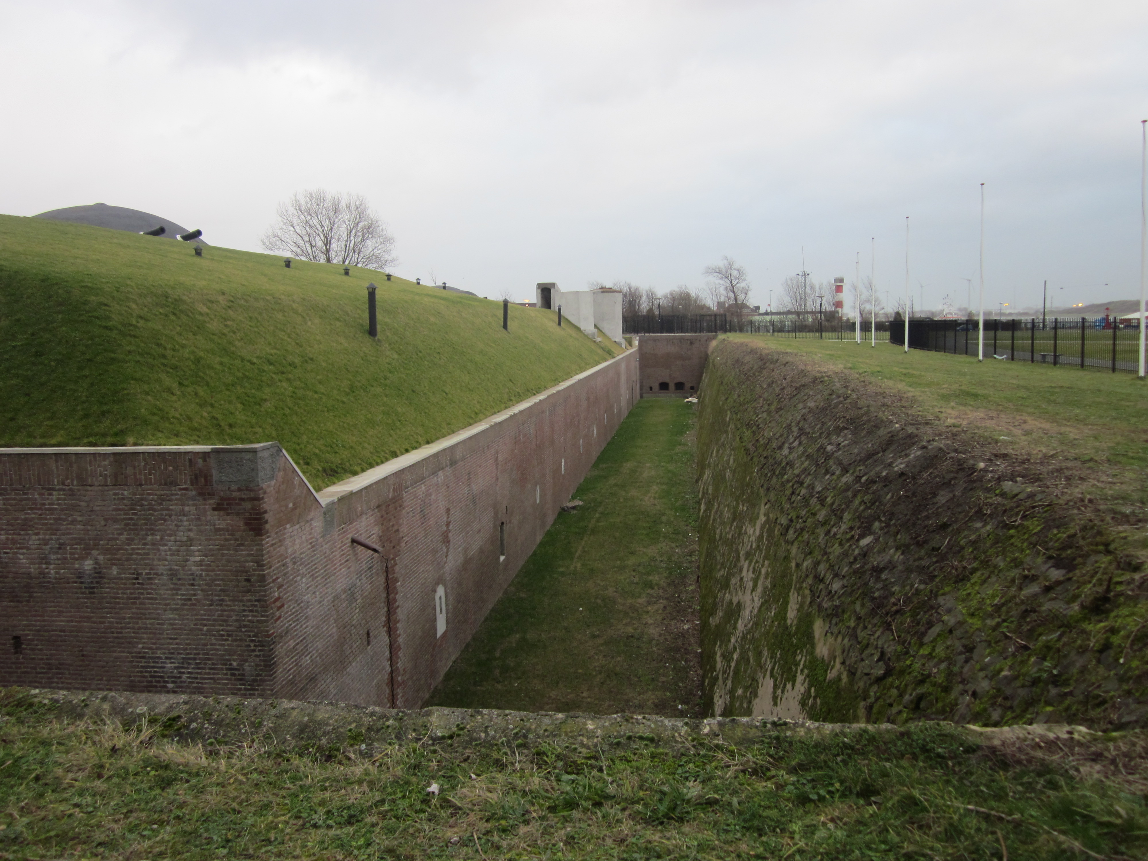 Dry moat of Fort aan den Hoek van Holland, the Netherlands, with at the end the caponier